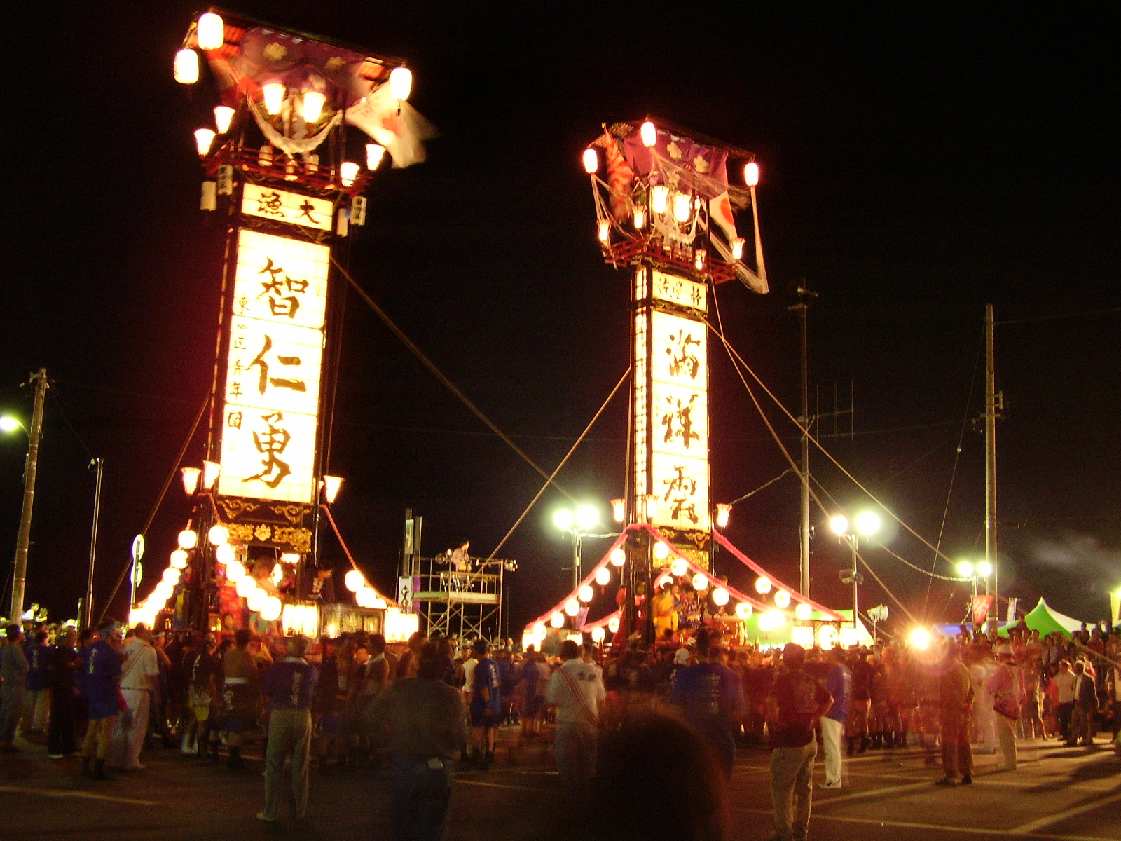 A Yosakoi festival in Wakura Onsen, Nanao, Japan.